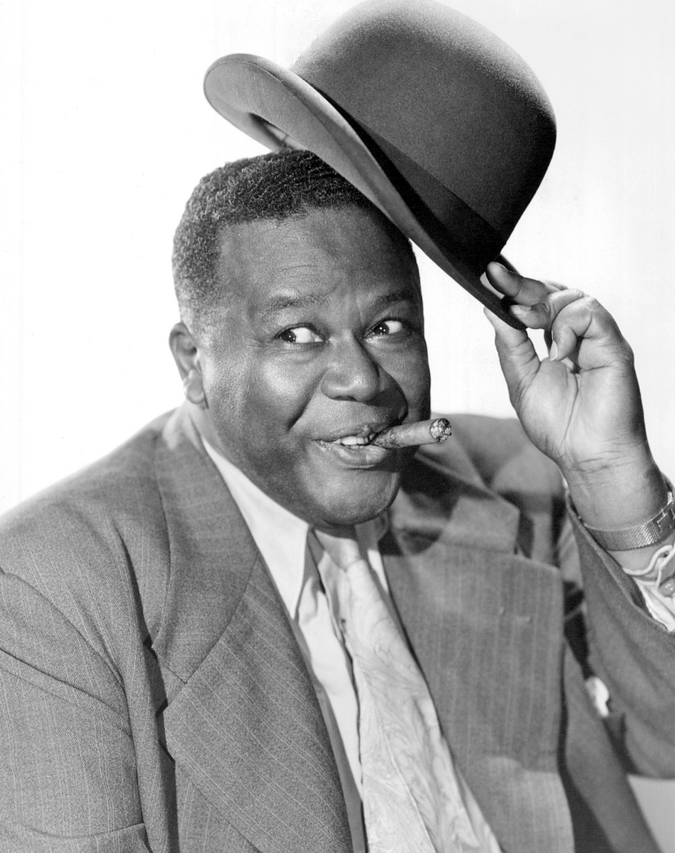 Publicity portrait of Spencer Williams as "Andy".